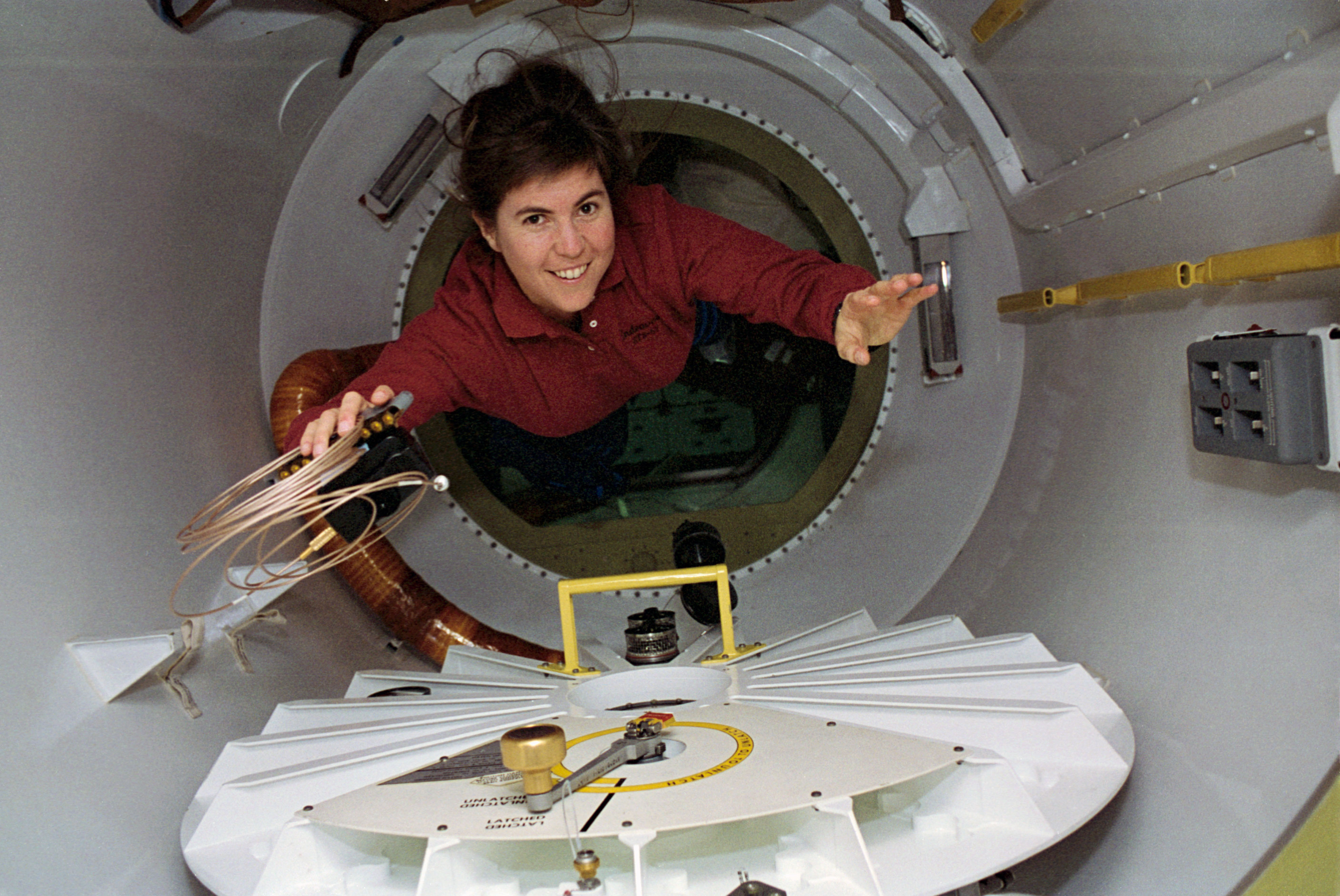 Mission Specialist Janice Voss, holding a camera, cable, & batteries, floats through the spacelab tunnel adapter on her way to the SPACEHAB module aboard Endeavour. Barely visible in the background are Endeavour's forward middeck lockers. SPACEHAB tunnel hatch lies open below Voss. Also visible are air circulation duct, tunnel light switches, handrails.